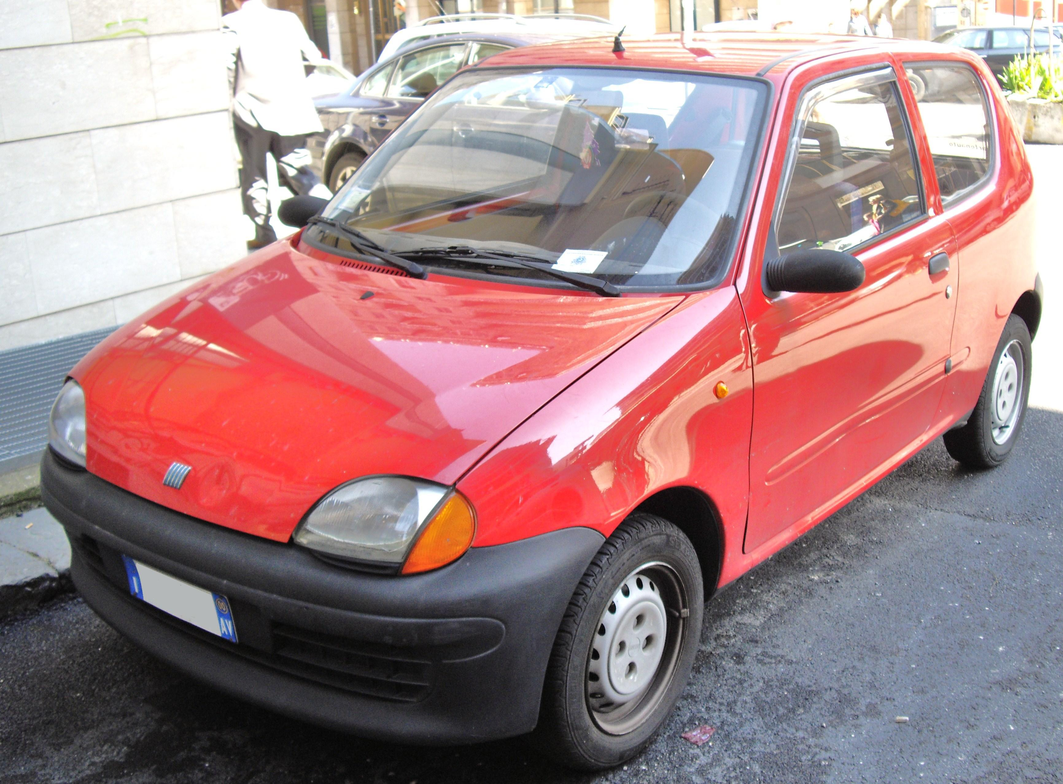 Fiat Seicento car in Italy.